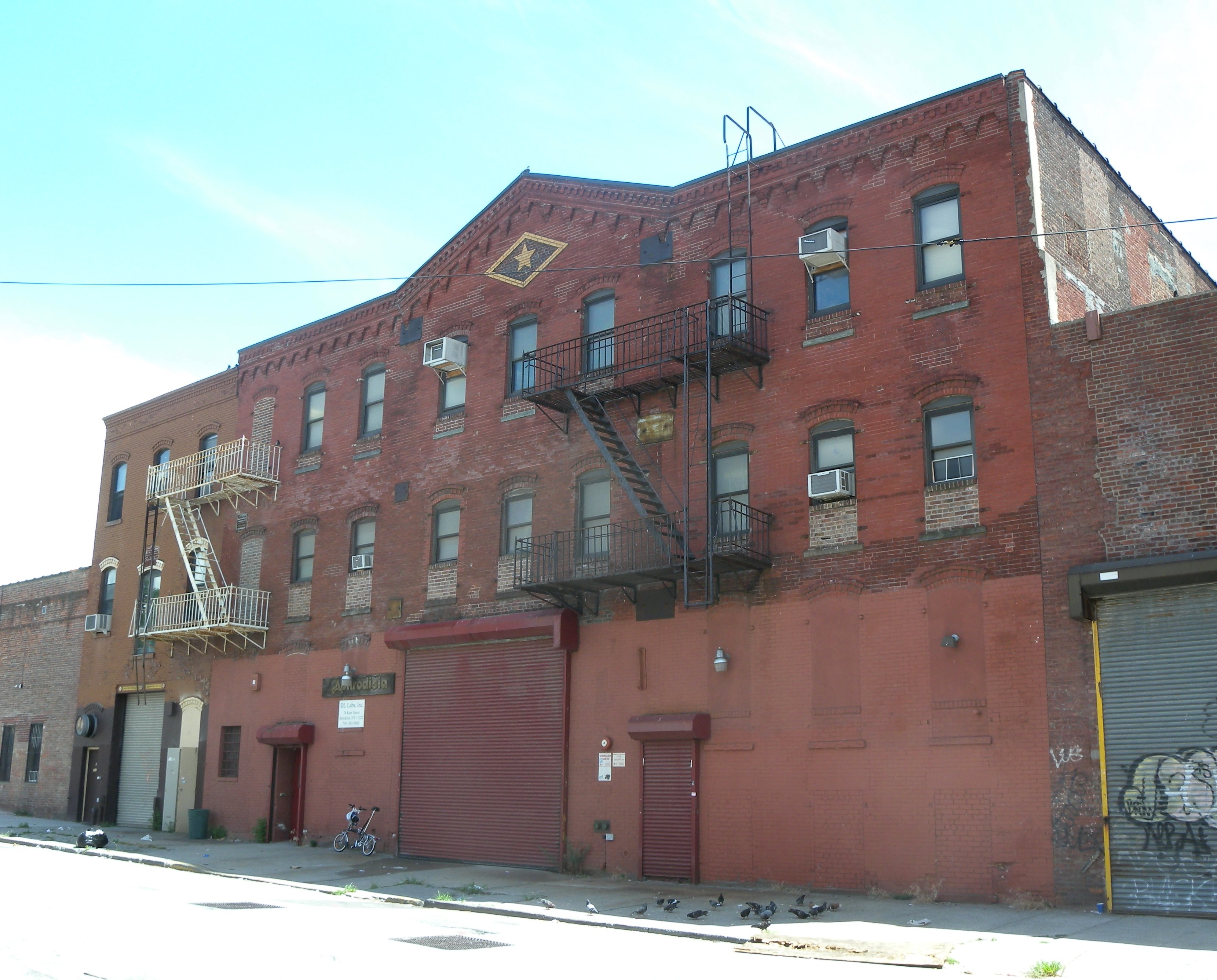 Looking east across Kent Street at former Eberhard Faber factory building on a sunny midday.